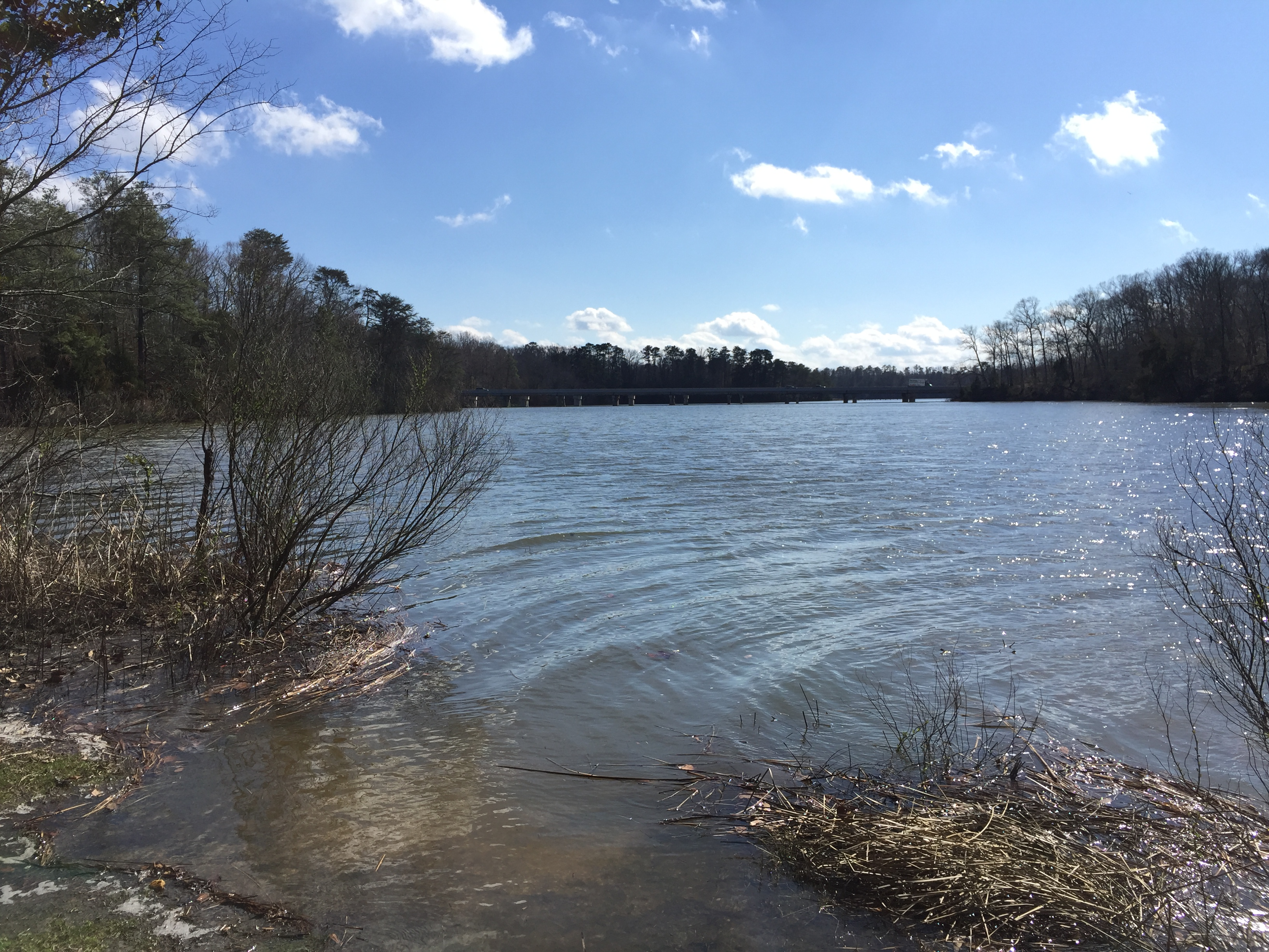 College Creek, from the College Landing Architectural Site